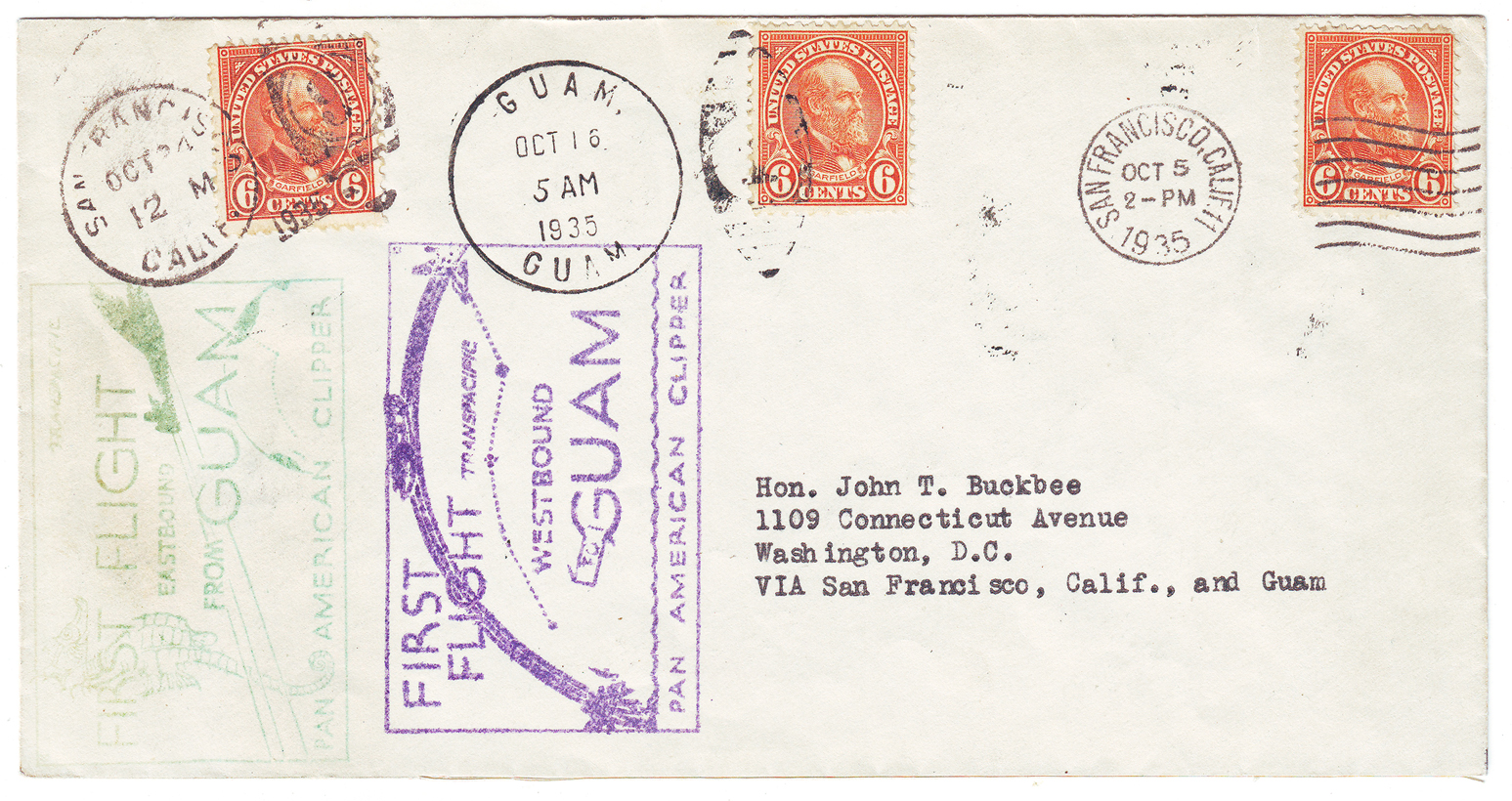 Flown cover carried both directions on the first commercial flights between San Francisco, CA, and Guam, Guam, October 5-24, 1935, with "Pan American Clipper" cachets. Air Mail route: FAM 14 Aircraft: Sikorsky S-42 flying boat "Pan Am Clipper" NOTE: The cover was addressed to US Rep. John T. Buckbee (R-IL) 1871-1936